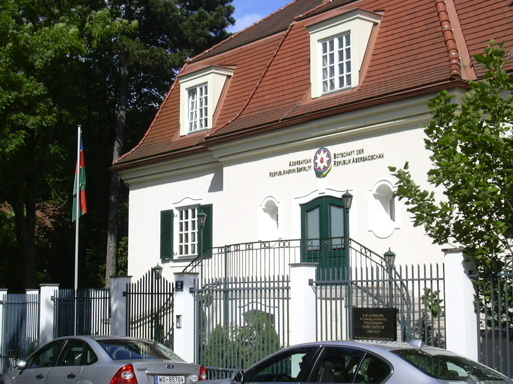 Called Moser Villa, this was the house of the then famous Viennese actor Hans Moser, who died in 1964. Today it is seat of the embassy of Azerbaijan in Vienna (13th district, Hügelgasse # 2). A memorial plate is remembering Moser.